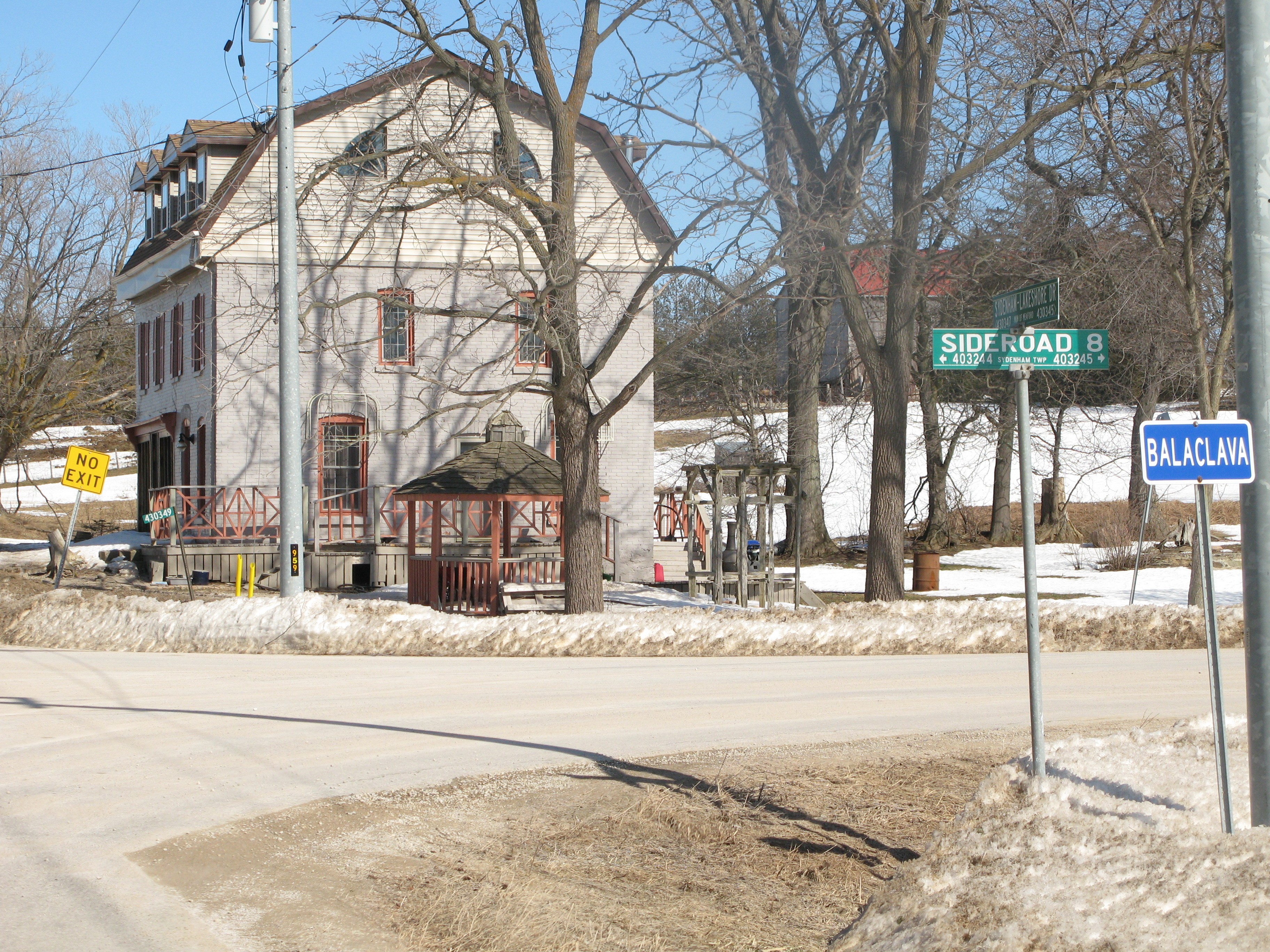 Balaclava, Grey County, Ontario. Taken by Rebecca Scott on March 18, 2007.